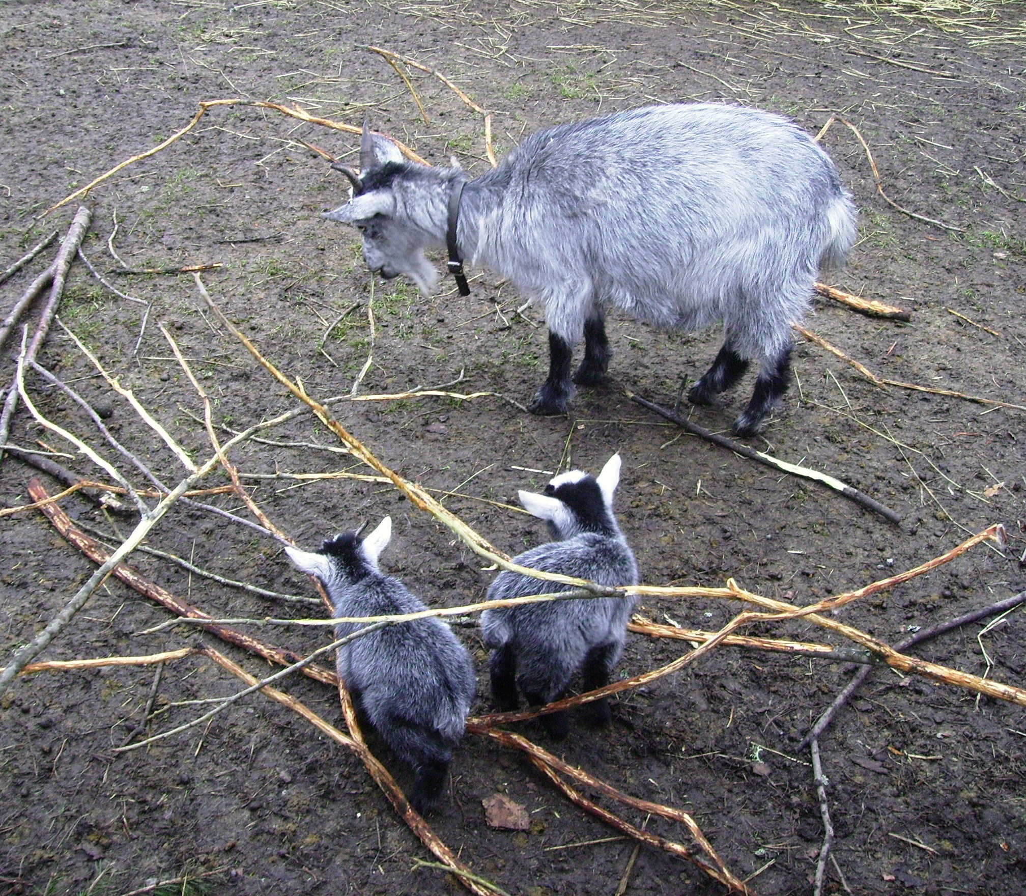 Picture of goats in Torekällberget in Södertälje